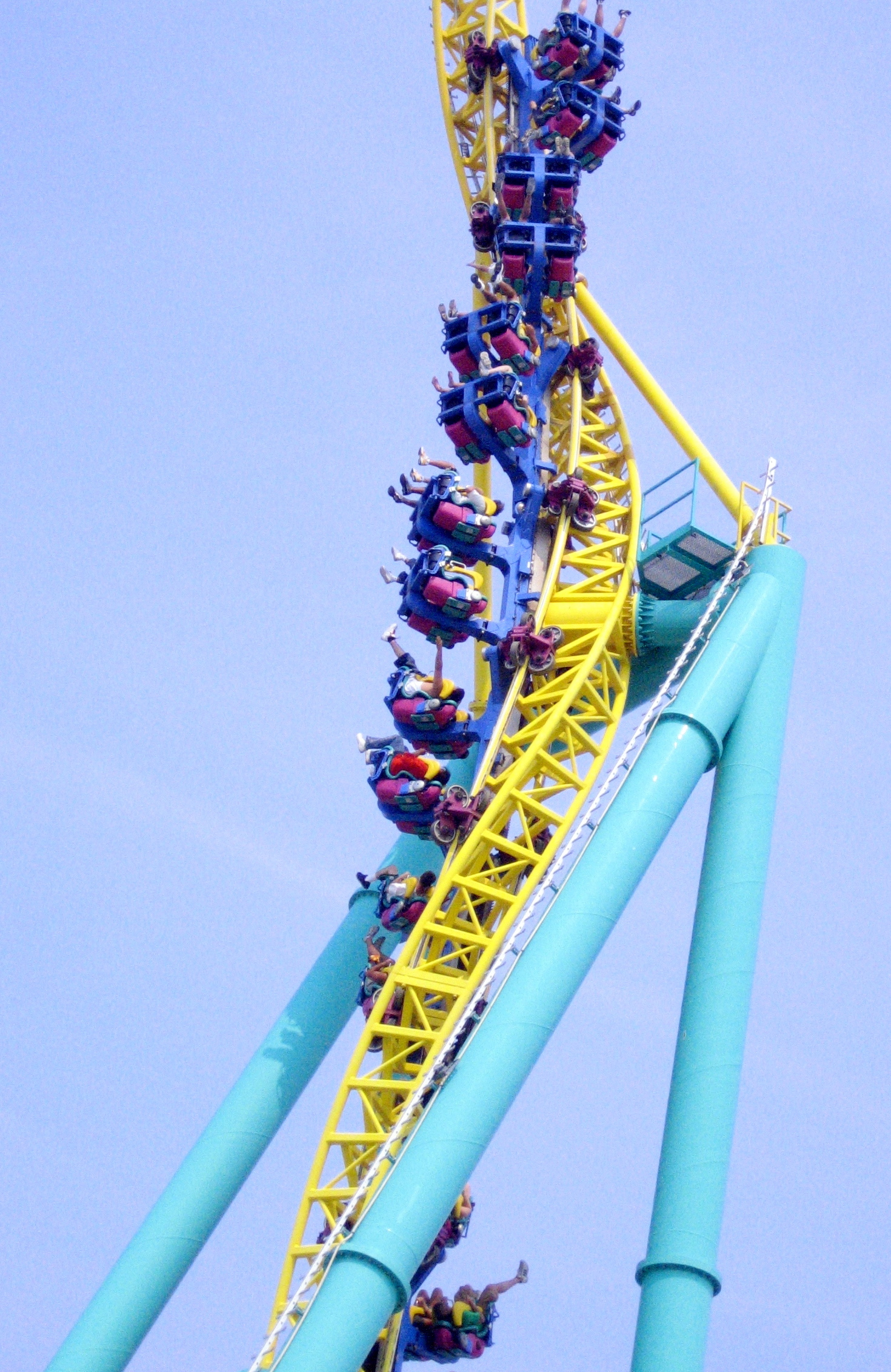 Cedar Point Wicked Twister roller coaster. Sandusky, Ohio, USA.